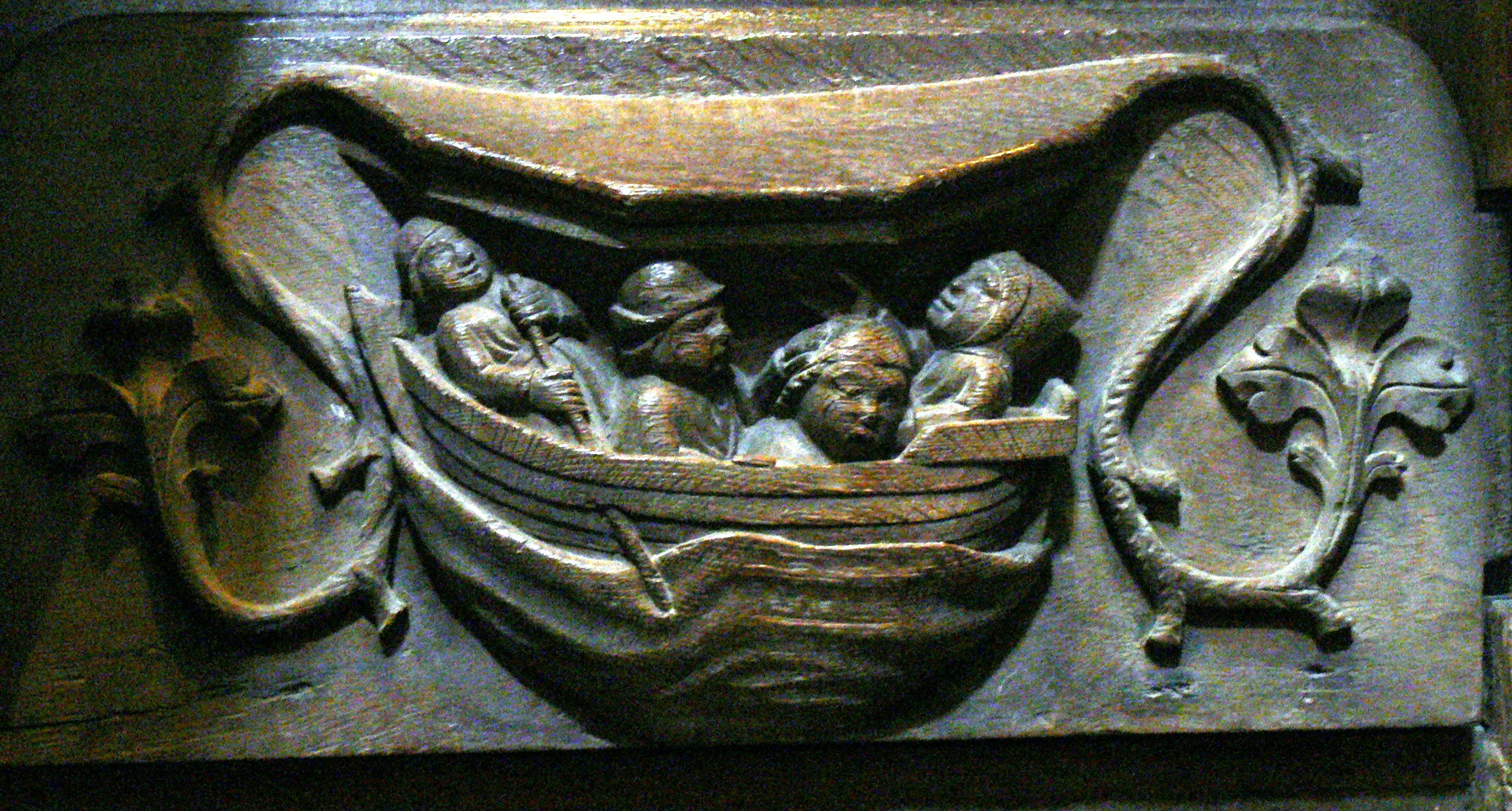 St.David's ( Wales ). Cathedral: Misericord ( 15th century ) - Seasick traveller vomiting over the side of a boat ( probably Saint Govan travelling to Rome ).